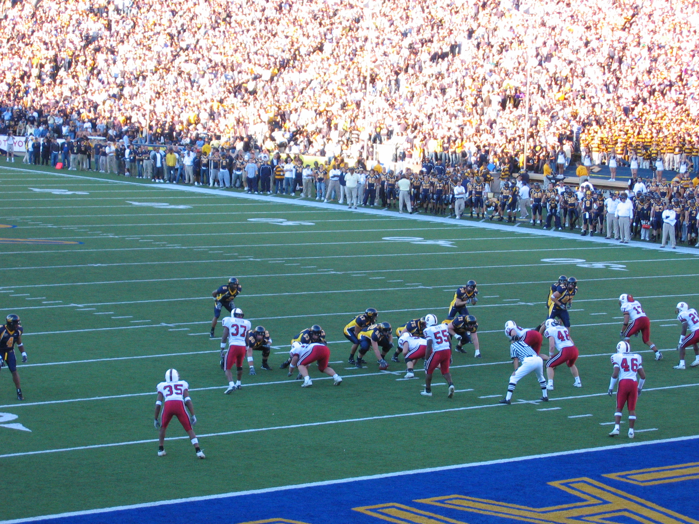 Photo taken by Poppy in November 2004. Big Game 2004 (Cal-Stanford) : Play